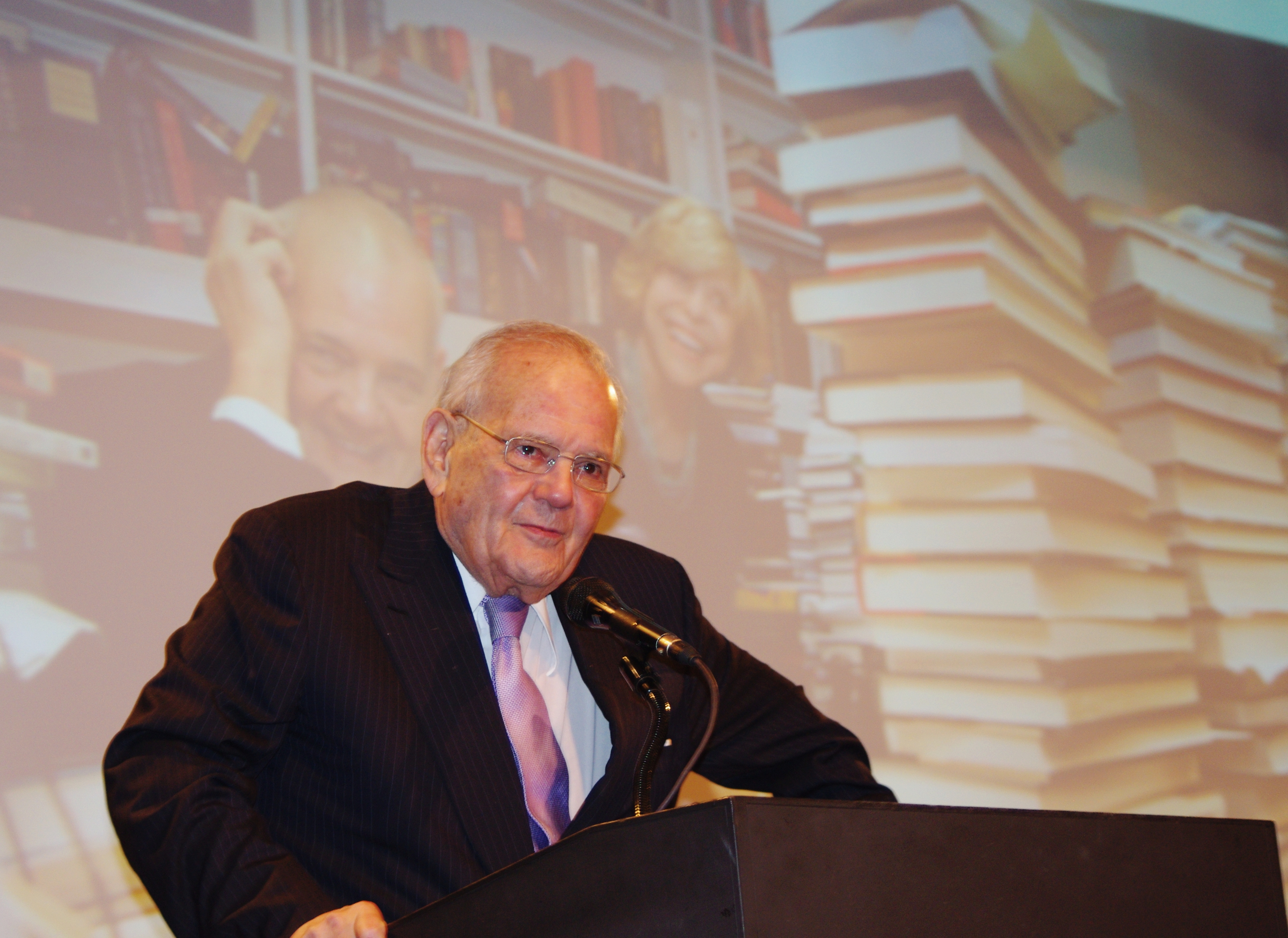 Robert B. Silvers at the National Book Critics Circle Awards, where he was awarded the Ivan Sandroff Lifetime Achievement Award.